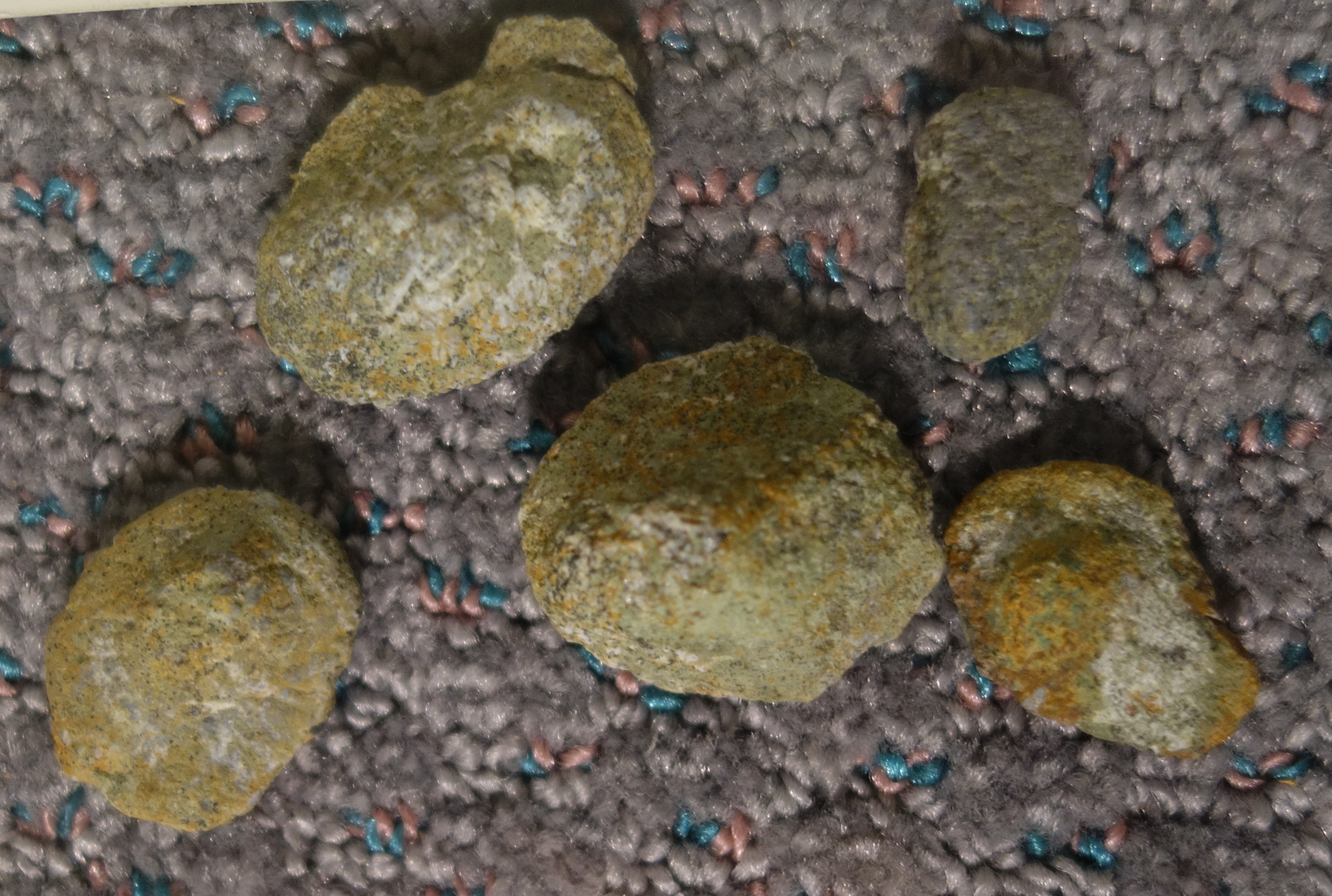 Gastonia burgei osteoderms (type: small, unfused scutes), on display at the BYU Museum of Paleontology.